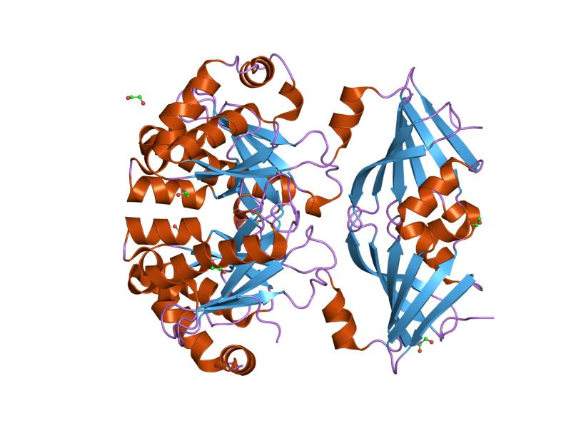 Cartoon representation of the molecular structure of protein registered with 1vlr code.